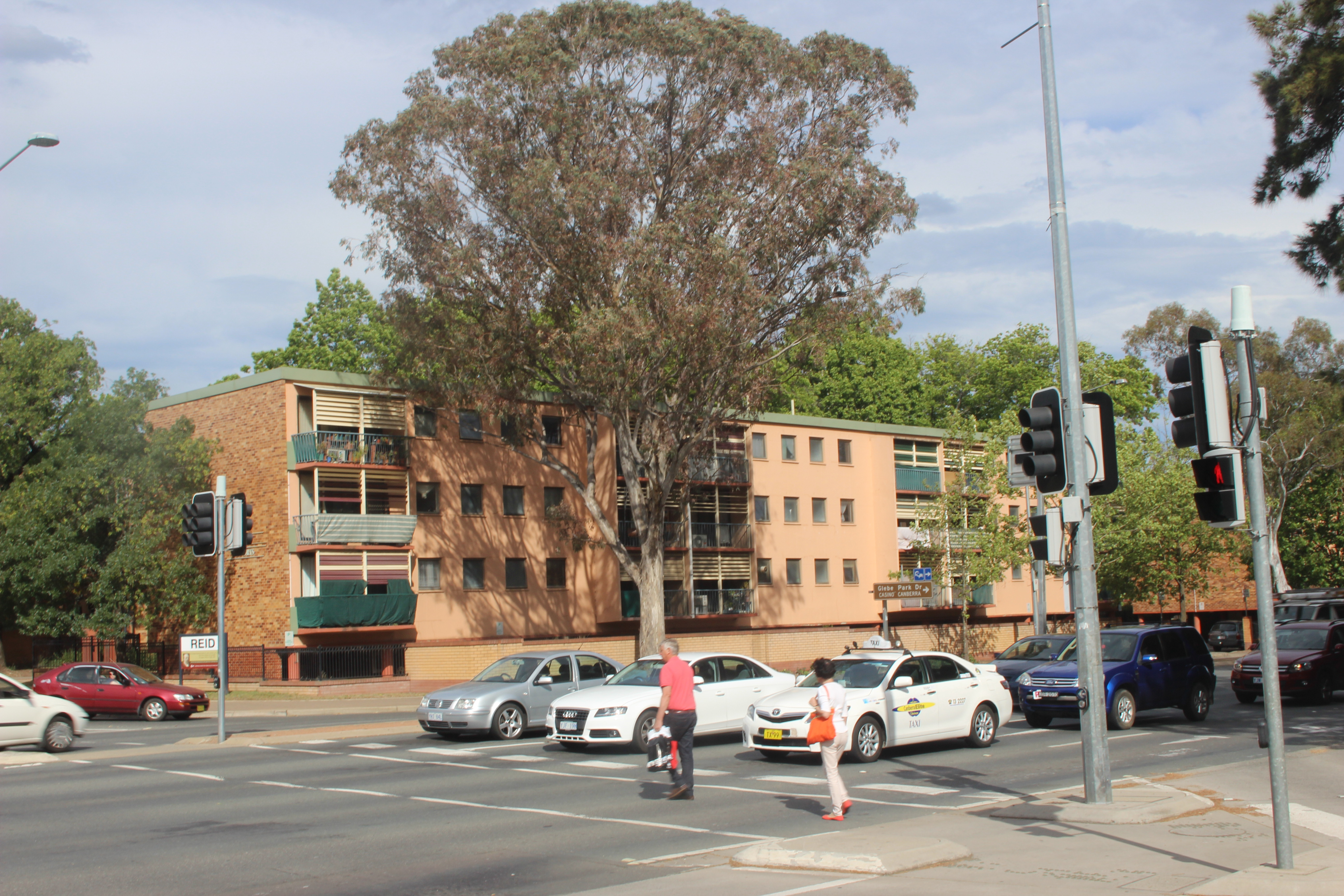 Bega Flats, Canberra, October 2014